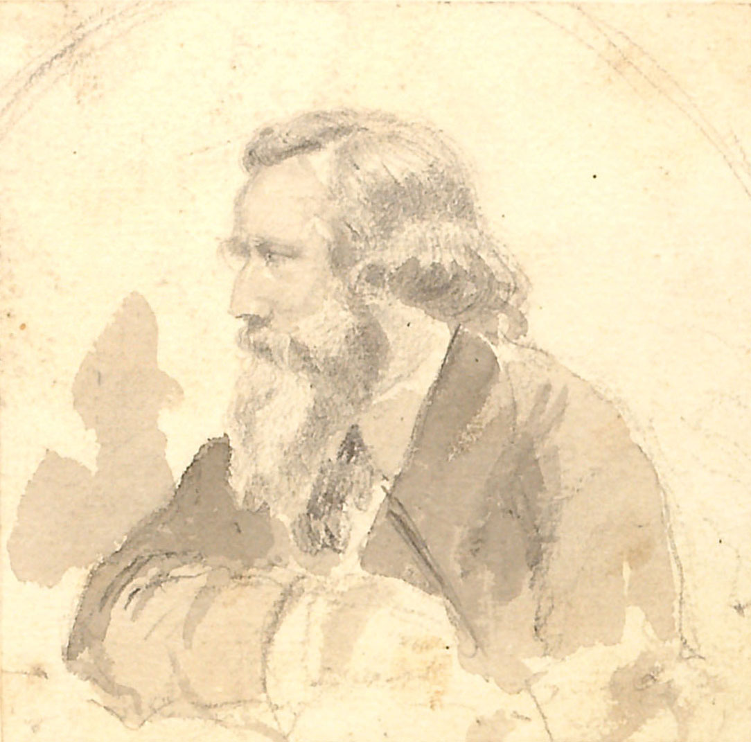 Portrait of Gunn by Sol Eytinge, ca. 1856. Volume 8. Missouri Historical Society Collections.